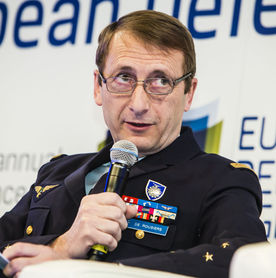 Patrick de Rousiers at the 2014 EDA European Defence Matters conference